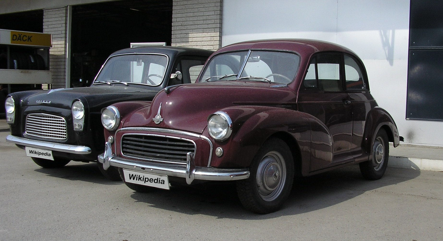 A 1955 two door Morris Minor Series II (to the right) and a 1958 Ford Anglia 101E (to the left)